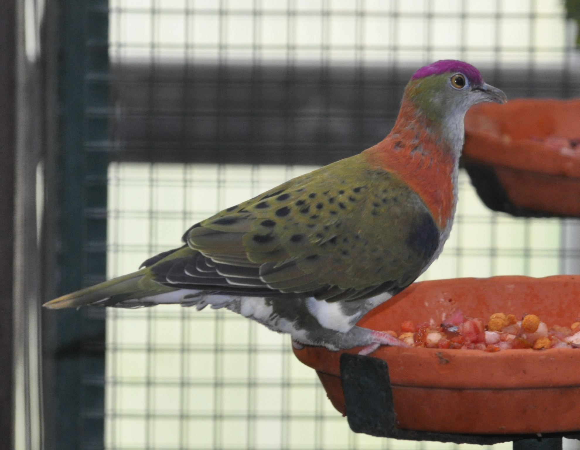 Superb Fruit-dove (Ptilinopus superbus superbus) in the Walsrode Bird Park, Germany.